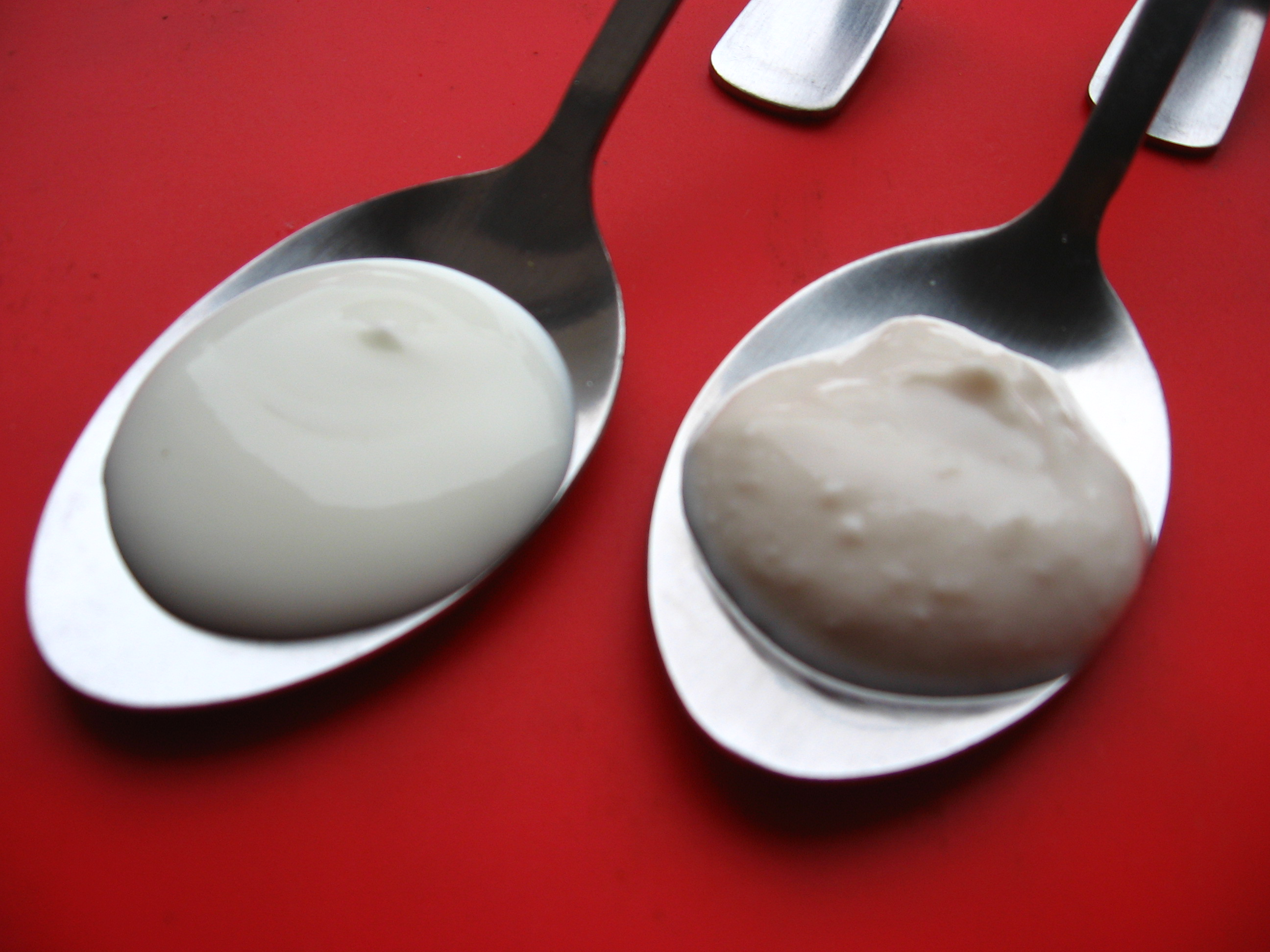 Yoghurt (left) and soy yoghurt (right) in comparison with red background.